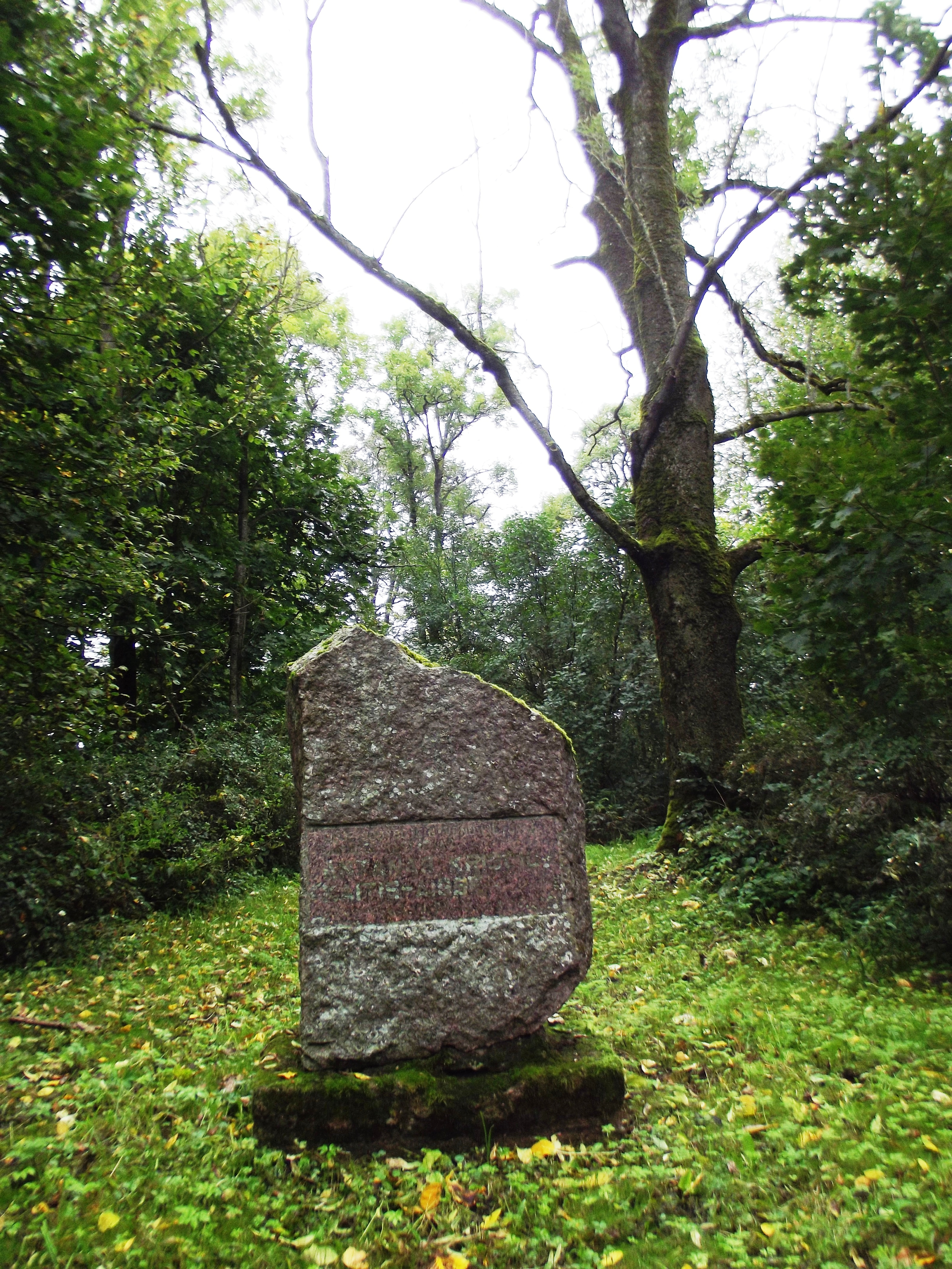 Memorial stone to writer Antanas Kriščiukaitis Aišbė, near Paežeriai (Pilviškiai), Vilkaviškis District, Lithuania